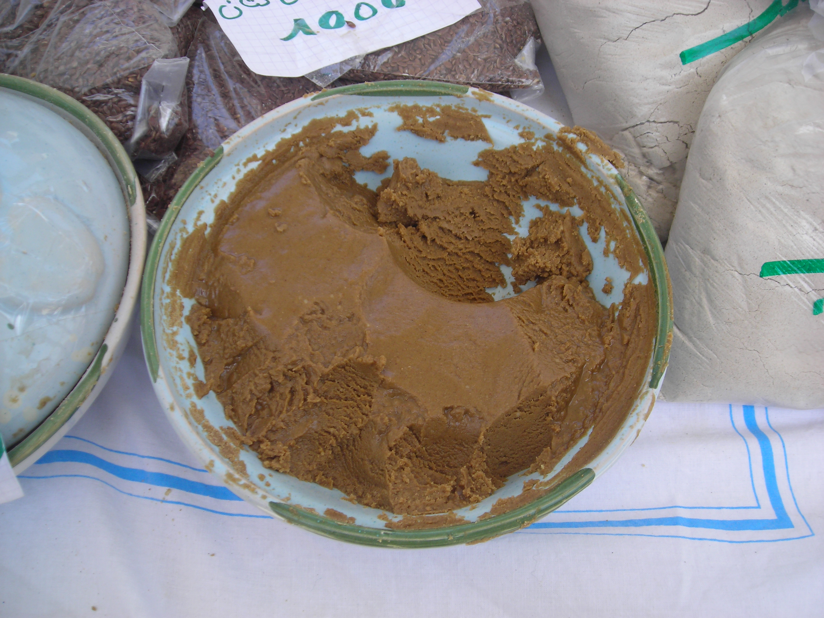 Wheat Bsissa